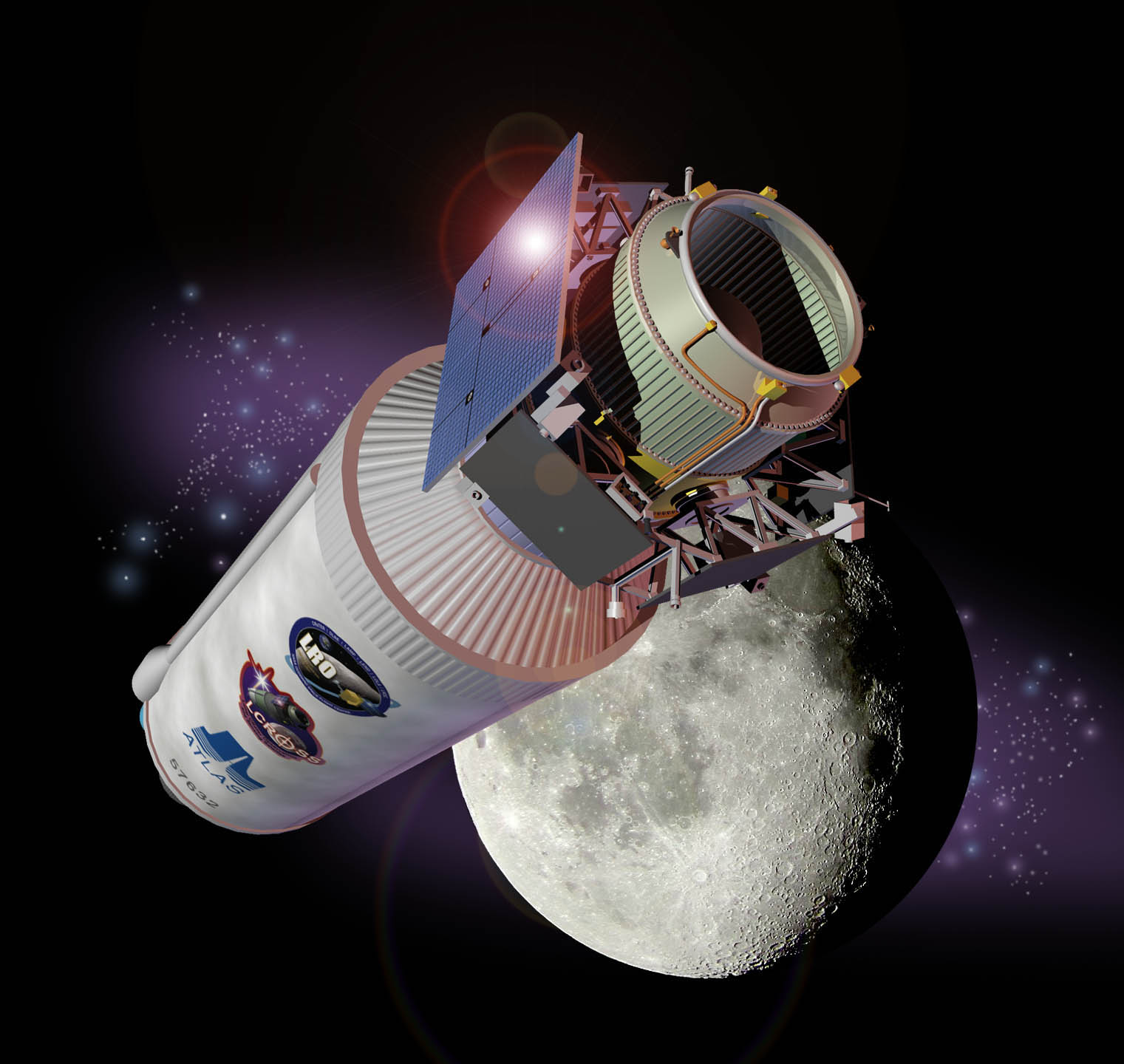 LCROSS spacecraft with Centaur Stage